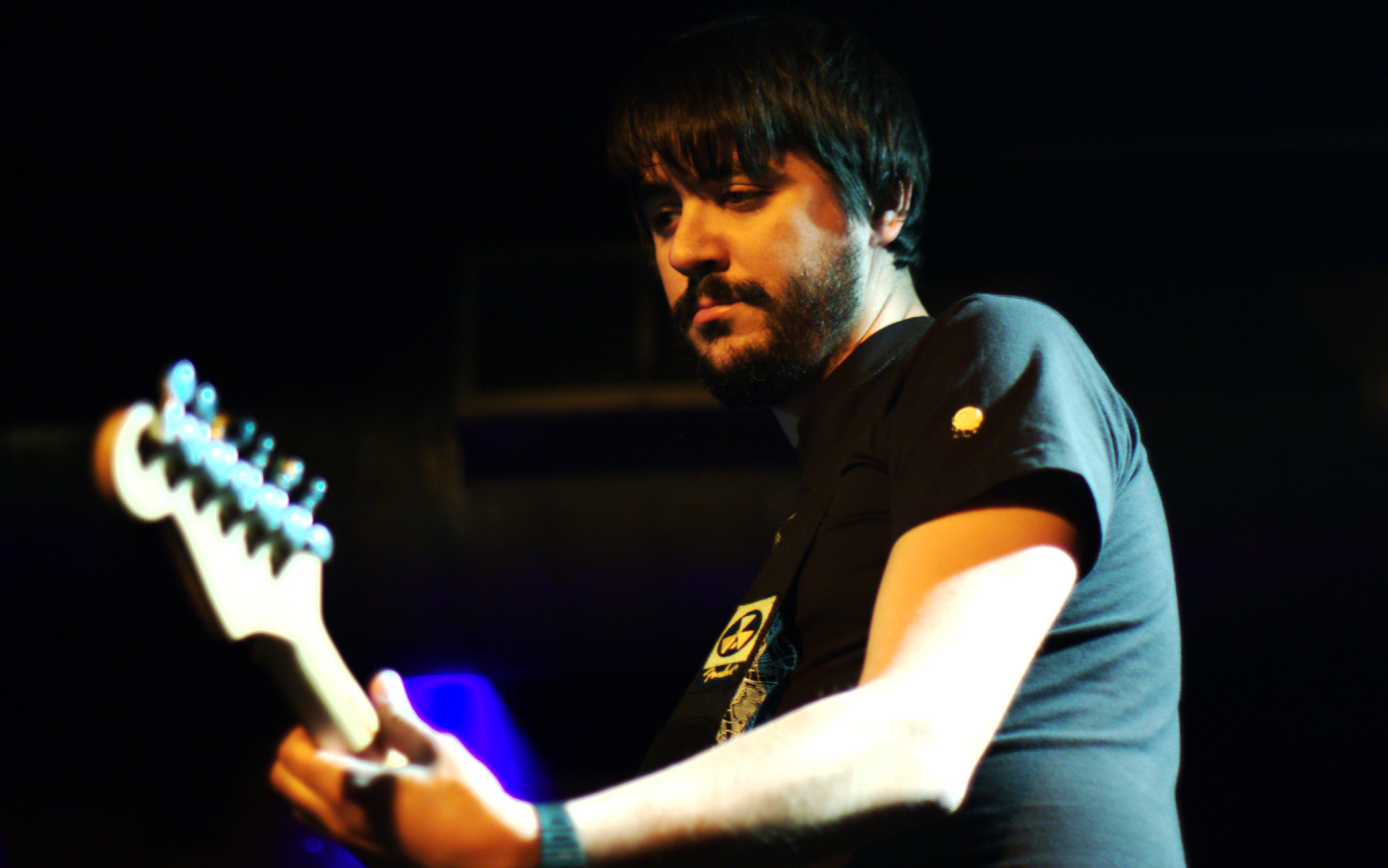 The spanish indie rock group Tannhäuser